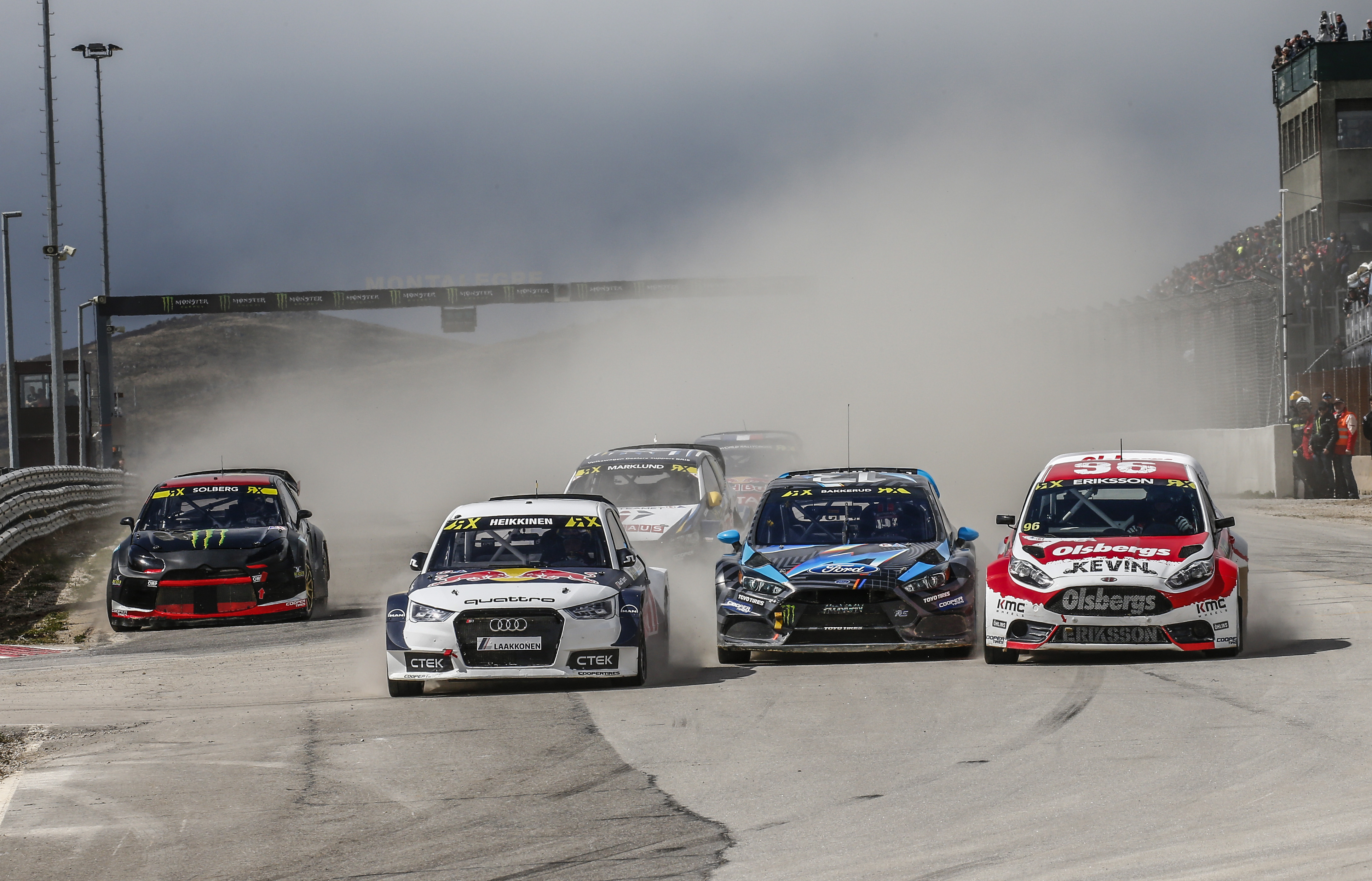 2016 FIA World Rallycross Championship // Round 01 // Montalegre, Portugal // 15-17 April, 2016 // Worldwide Copyright: EKS/McKlein